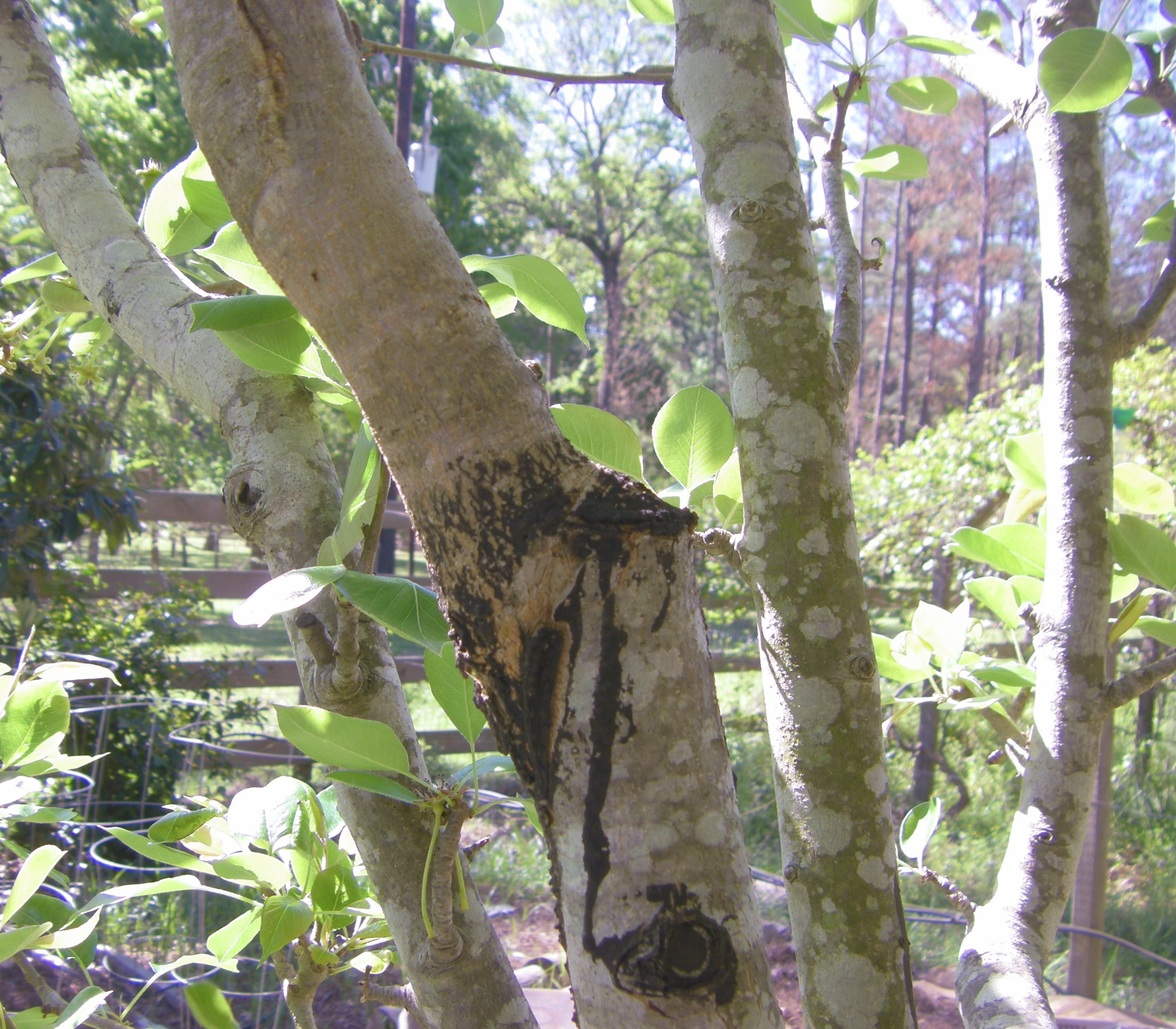 Example of a successful cleft graft after 4 years of growth. Uploading specifically for use in the Grafting article, where the same graft is displayed after 2 years of growth, for comparison.